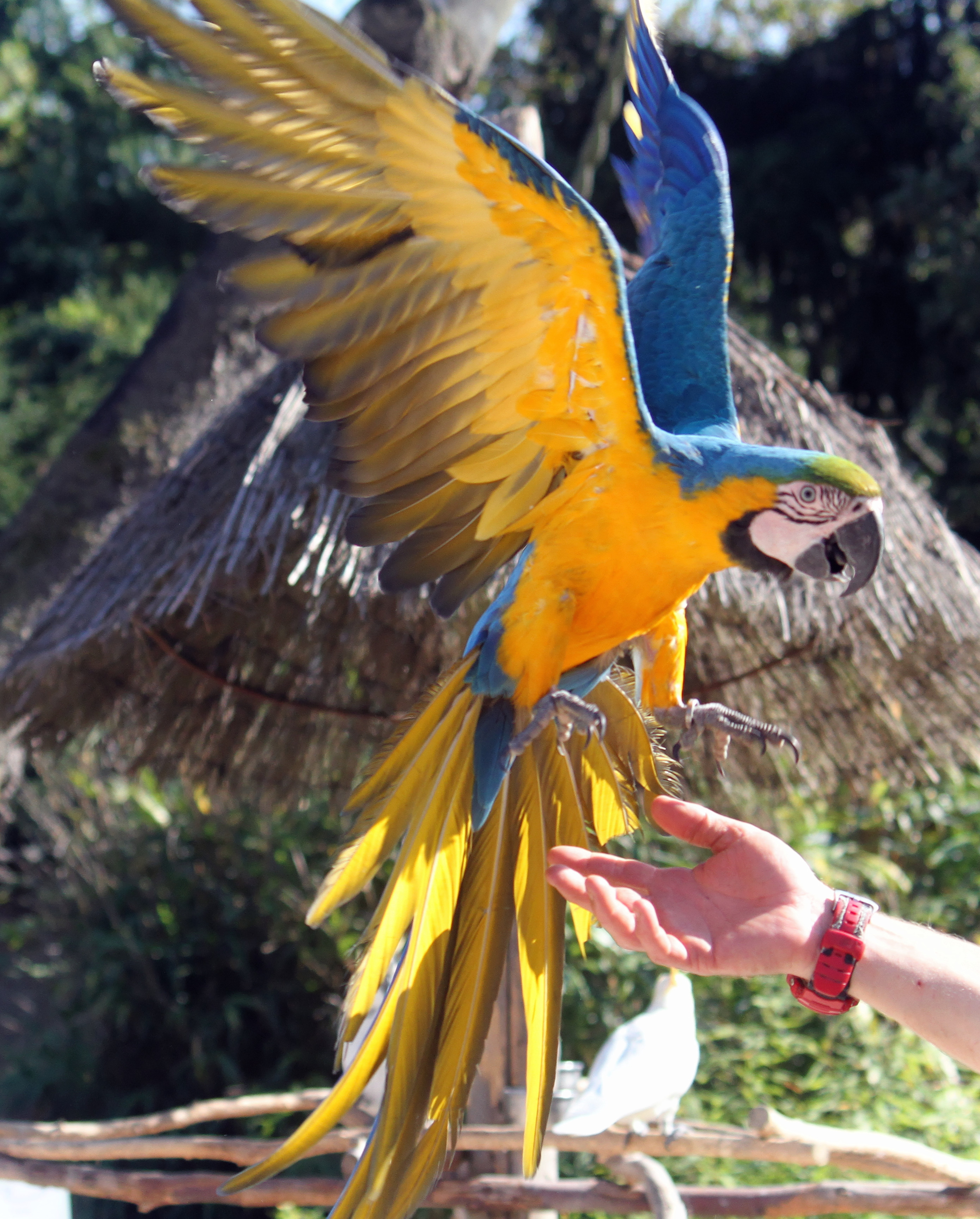 Blue-and-yellow macaw in the Vogelpark Heiligenkirchen